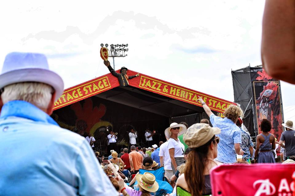 Jazz and Heritage Stage at the 2014 Jazz Fest